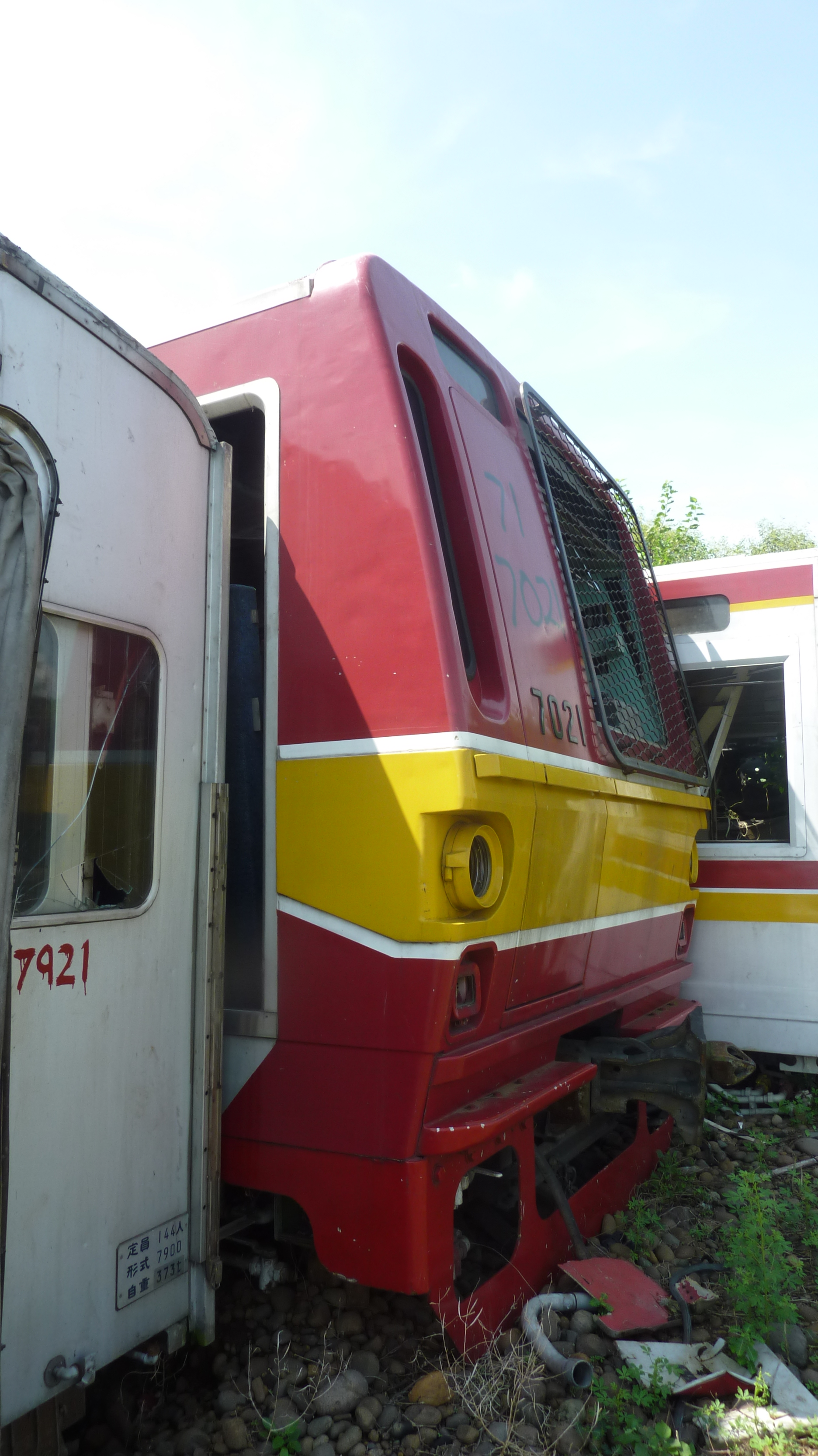 Derelict former Tokyo Metro Yurakucho Line 7000 series car 7021 awaits for scrapping in Cikaum Station in Subang Regency, West Java, Indonesia, July 2016.